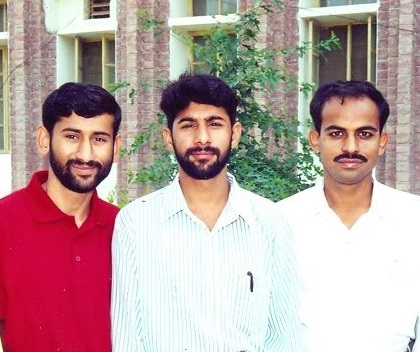 Qadir (left) during his B Pharm degree in 2000